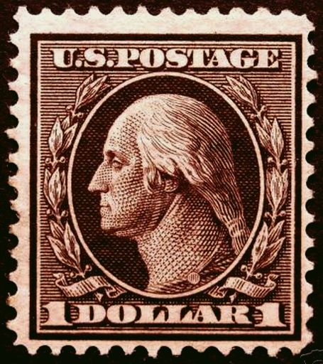 US Postage stamp: Washington-Franklin Issues of 1909, Washington head, $1